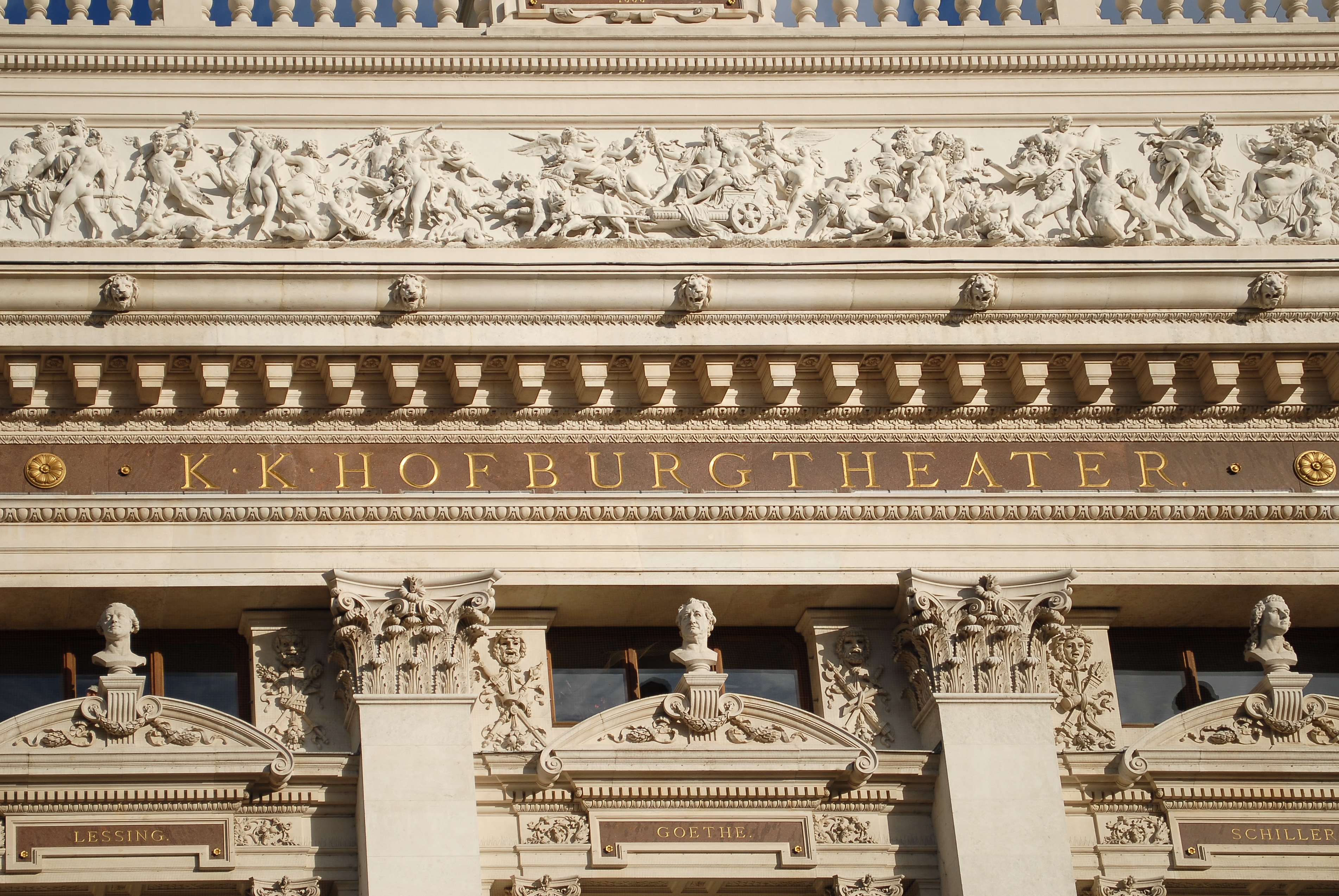 Detail of Facade of burgtheater in Vienna